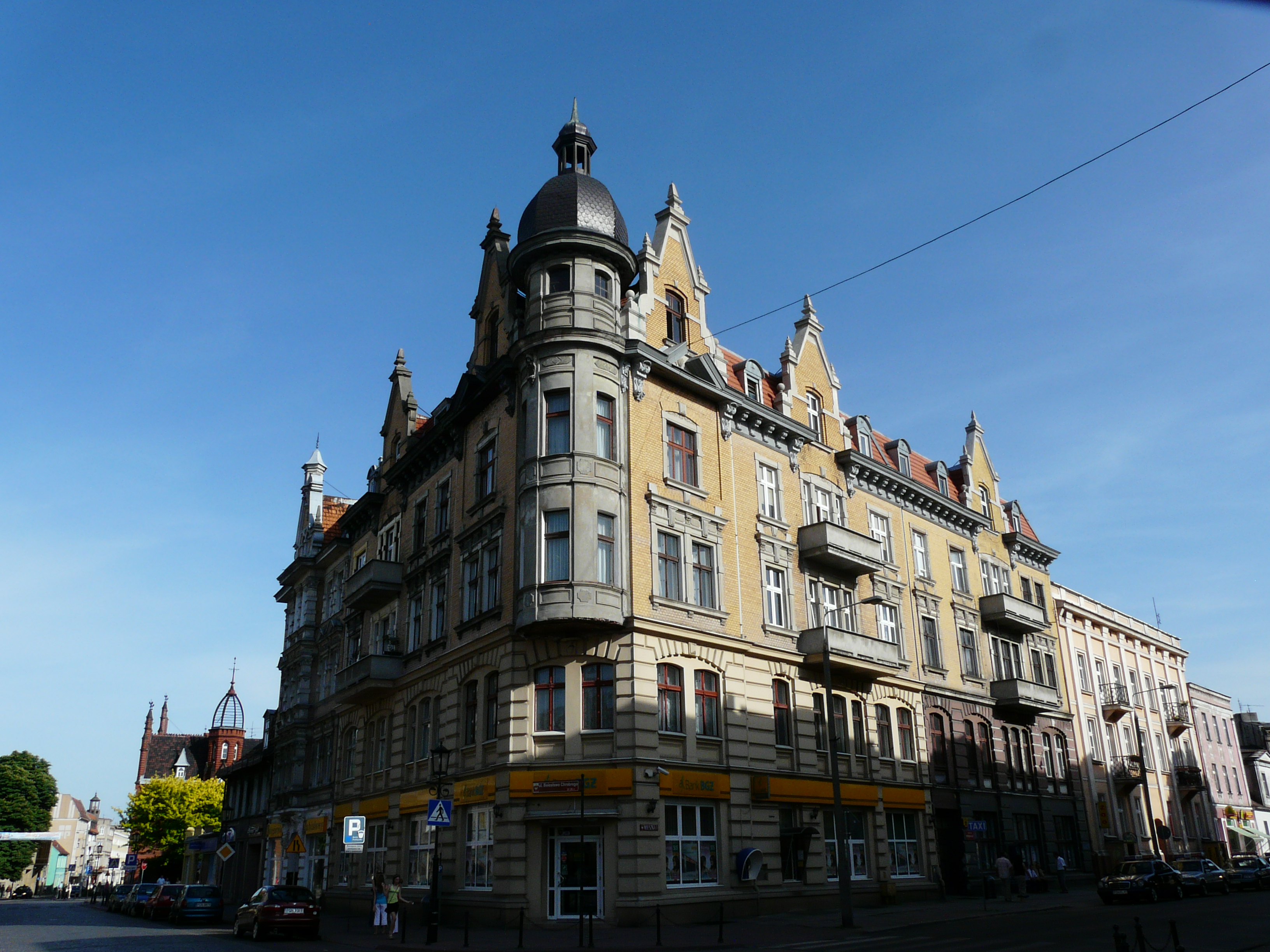 Gniezno, Poland. The corner of Bolesław Chrobry and Mieszko I streets.